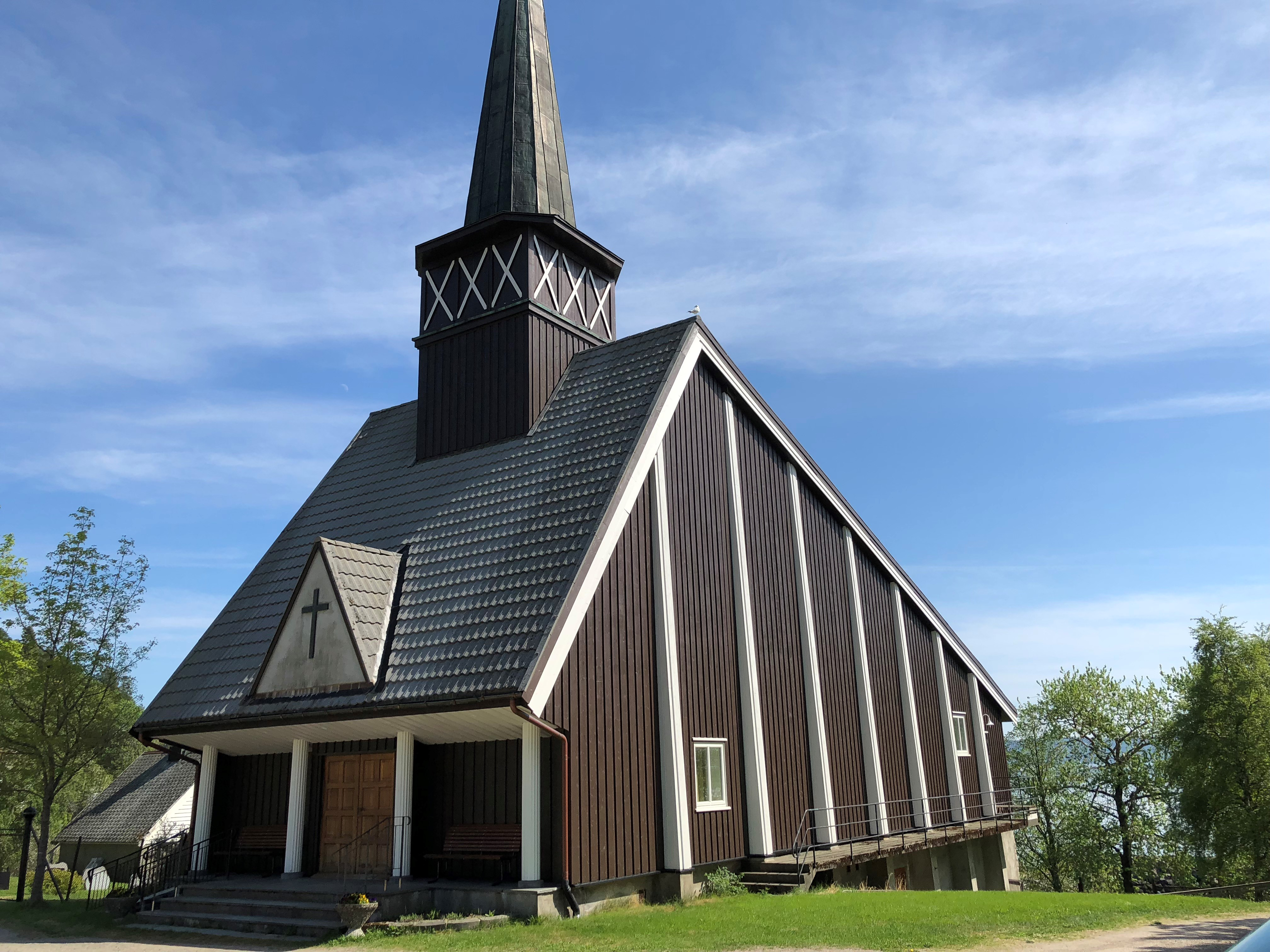 Follafoss Church in Follafoss, Trøndelag, Norway. Built 1954.